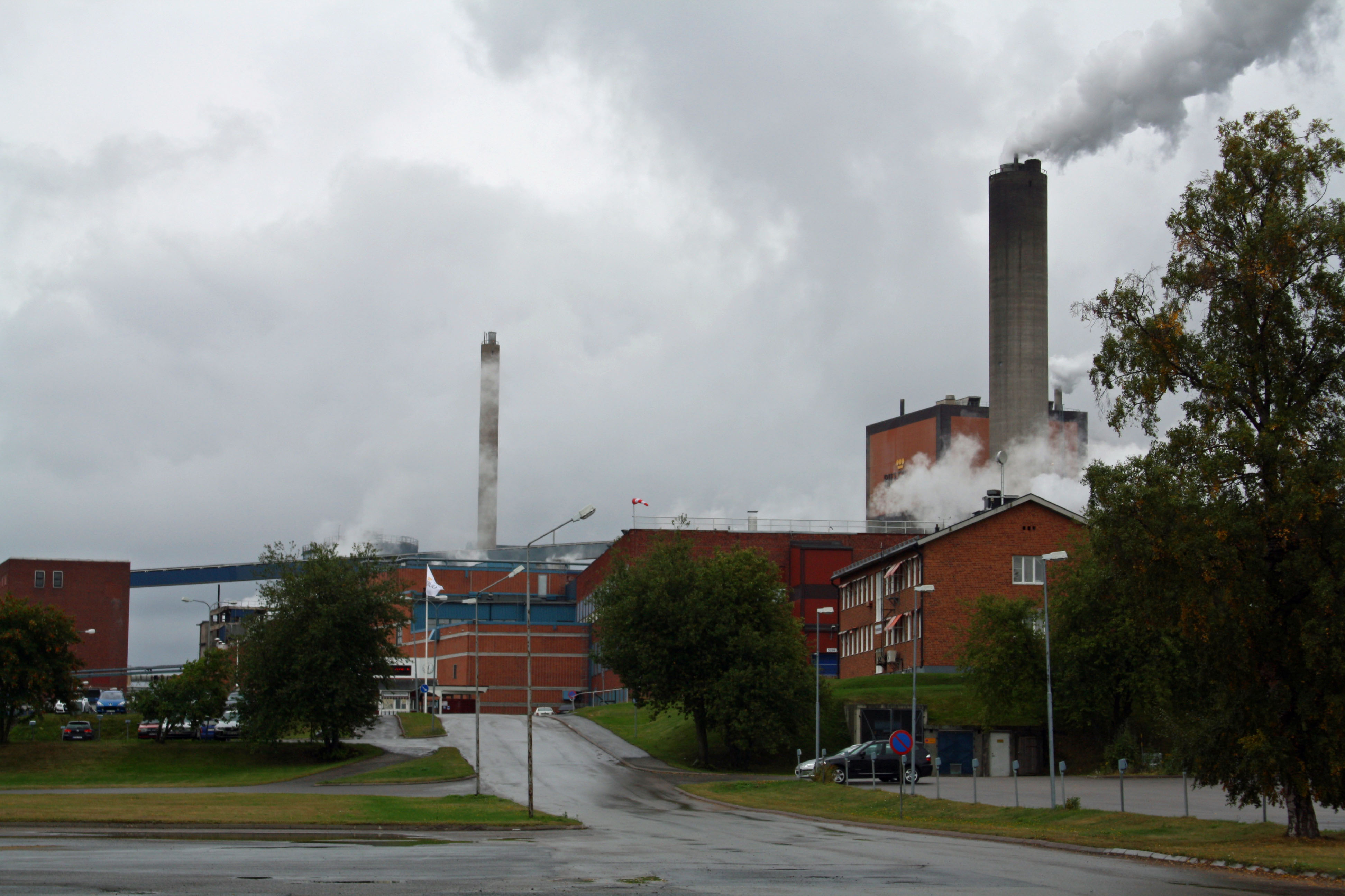 The Billerud paper mill in Karlsborg, Kalix municipality, Sweden, 2012.